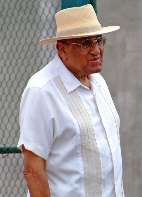 Former MLB pitcher Don Newcombe in 2009.